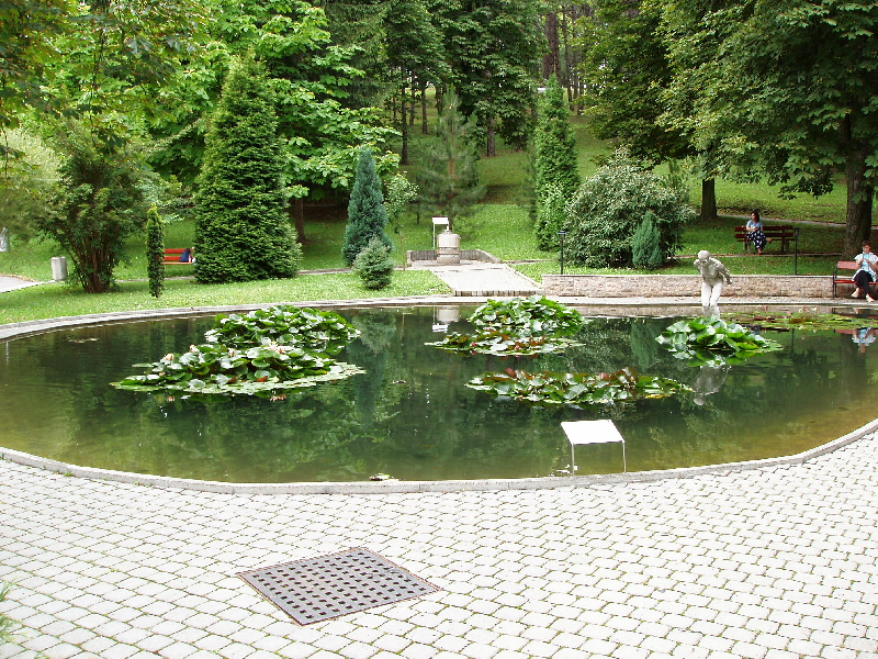 Small lake in Bojnice spa, Bojnice, Slovakia